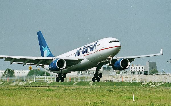 Air Transat flight arrives in Amsterdam